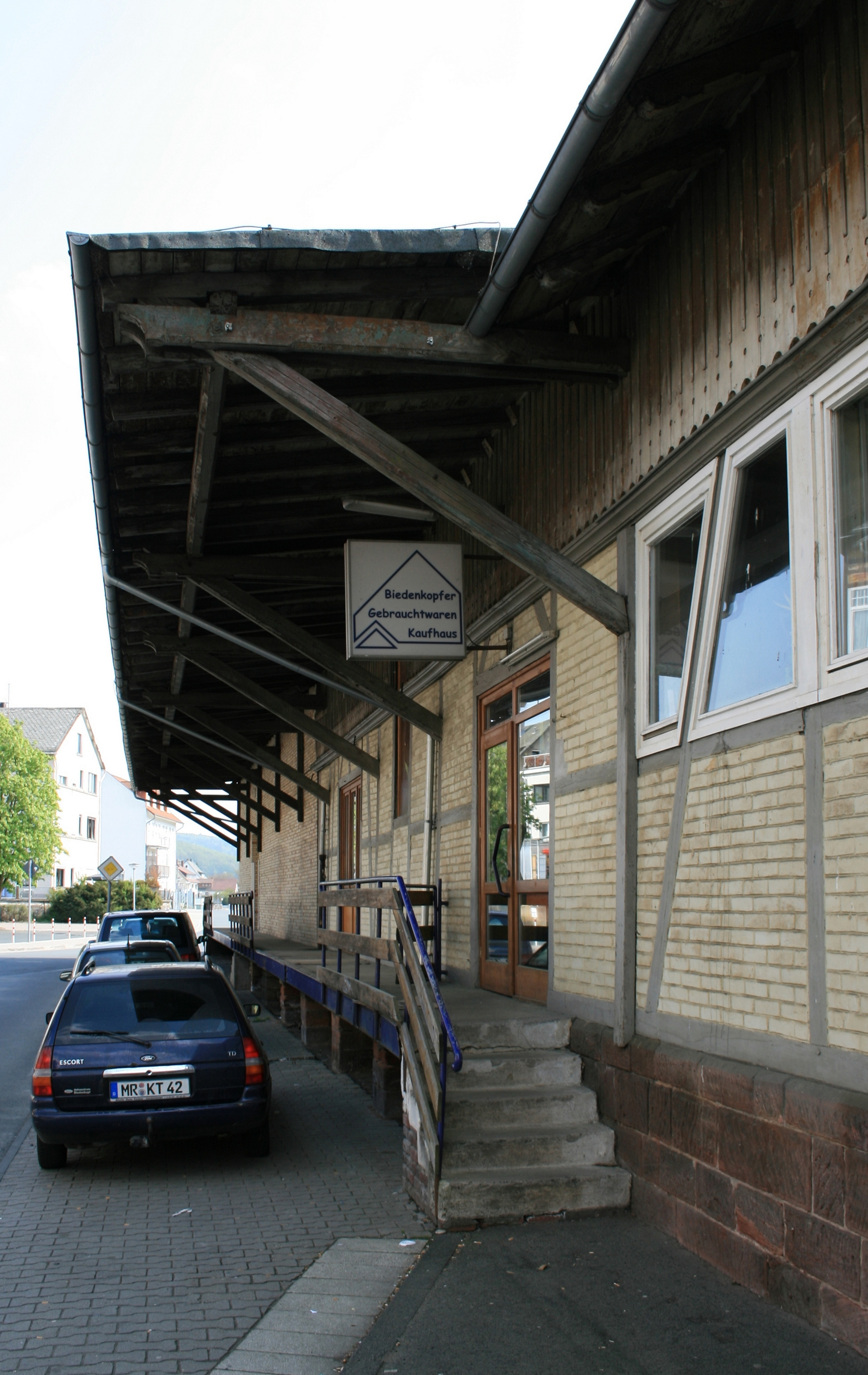 Germany, Hesse, Biedenkopf/Lahn: Look at the goods shed (current use as a thrift store), streetview.